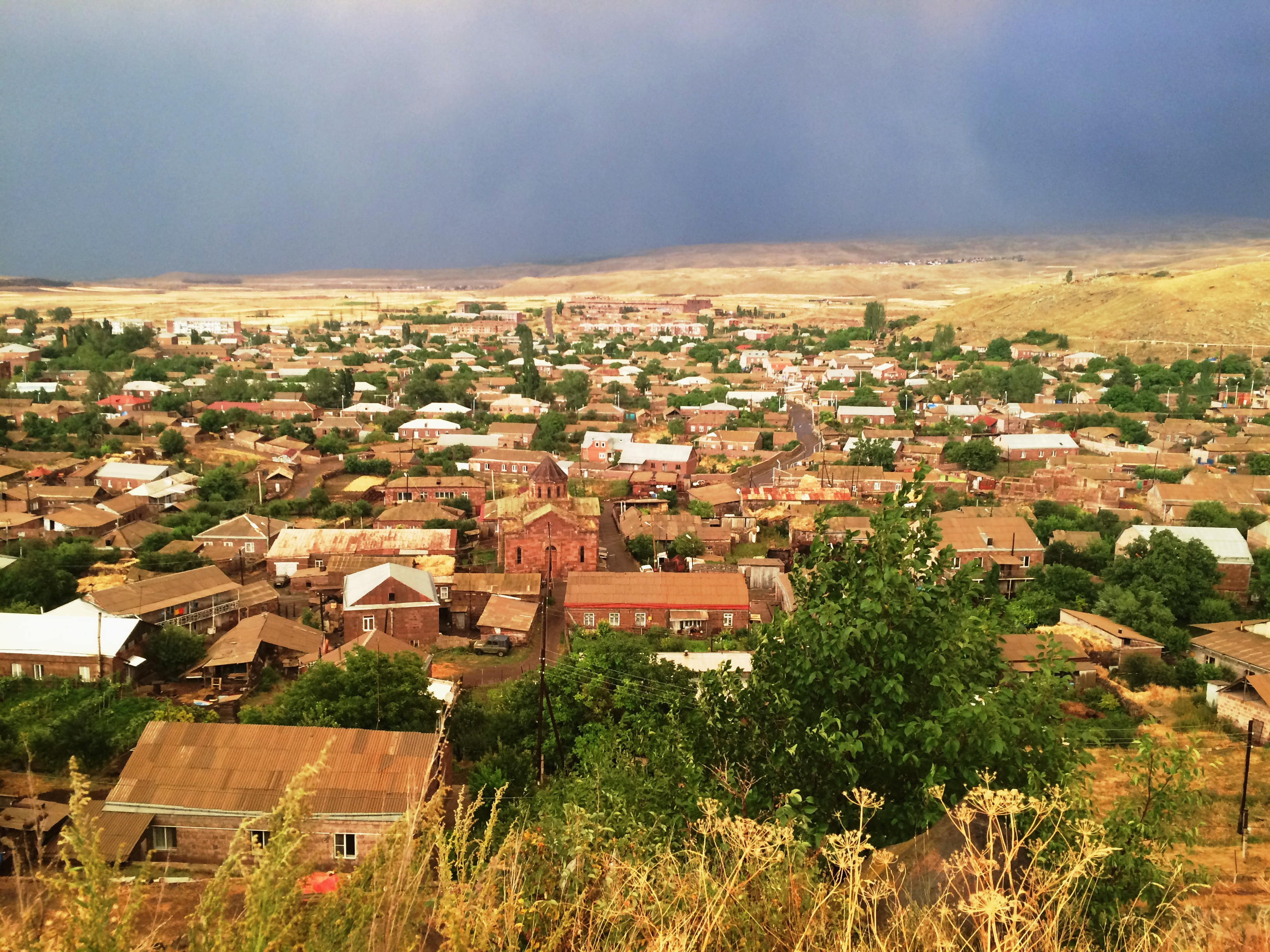 Town of Maralik, Shirak marz, Armenia.